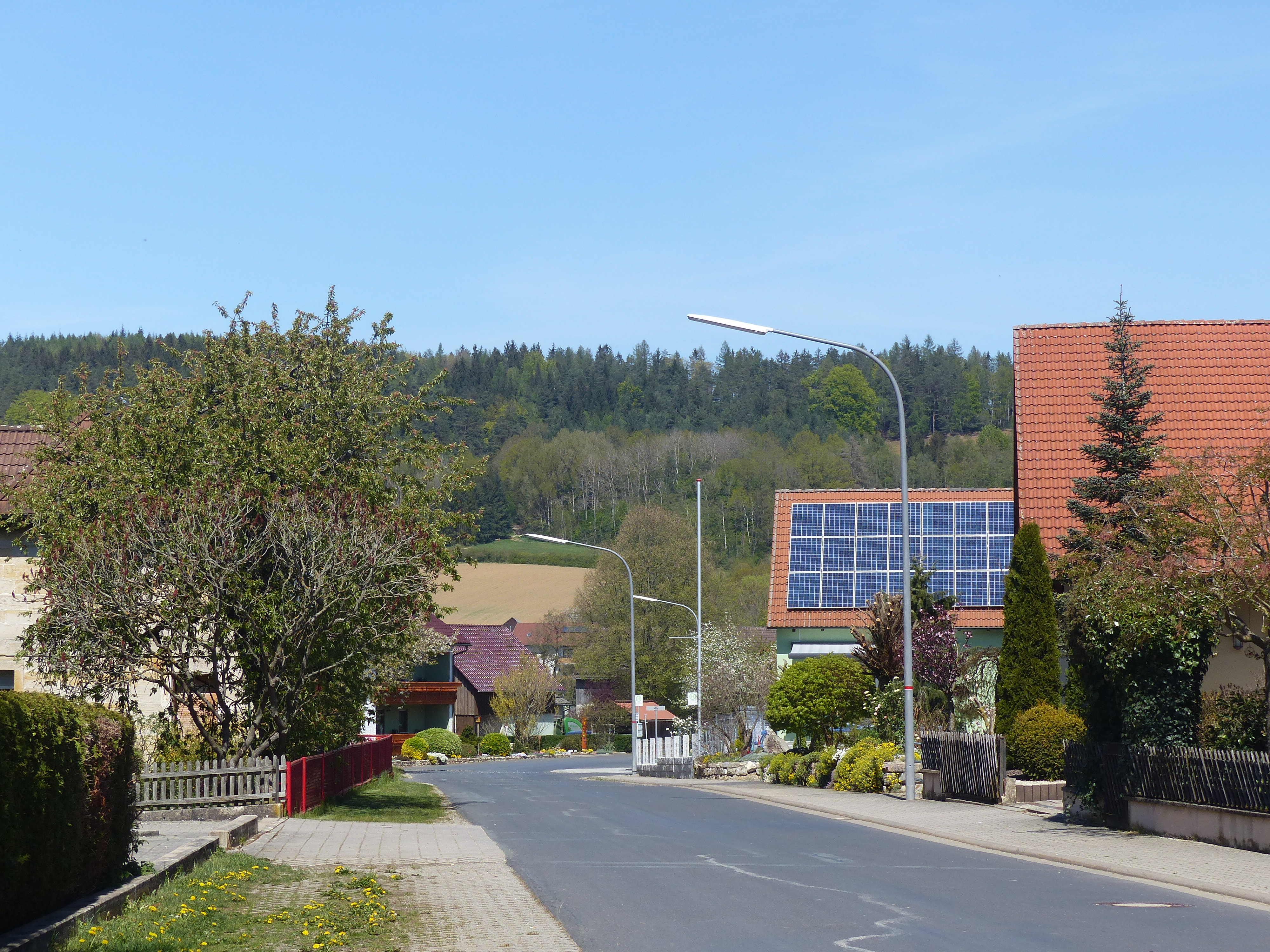 The village Körzendorf, a district of the municipality of Ahorntal.